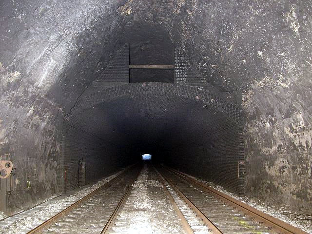 Inside Box Tunnel This photo shows the view east along Box Tunnel and shows the inner lining. Someone added "an Interesting anecdote with regard to this Tunnel, built by Isambard Kingdom Brunell, which might be interesting to viewers of the picture: April 9th is Brunel's birthday, and if you stand at the western end and look through the tunnel at dawn you can actually see the sun rise through the eastern end. It was engineered perfectly straight". There seems to be a difference of opinion on this as it is also said that it shines through on the 7th.